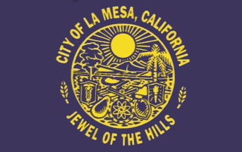 The official city flag of La Mesa, California.